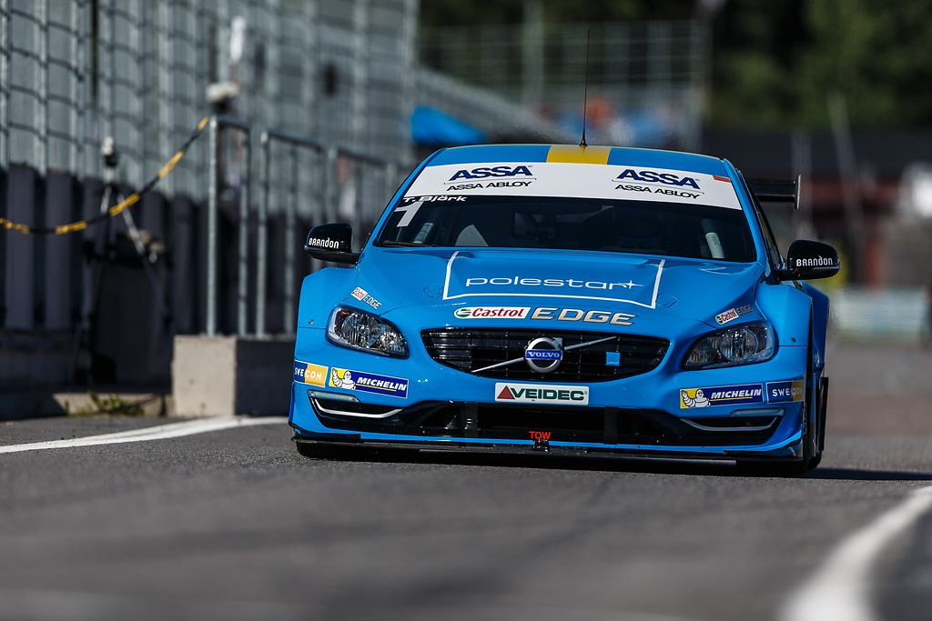 Thed Björk driving for Volvo Polestar Racing at Karlskoga Motorstadion, during the fifth round of the 2015 Scandinavian Touring Car Championship (STCC) season.